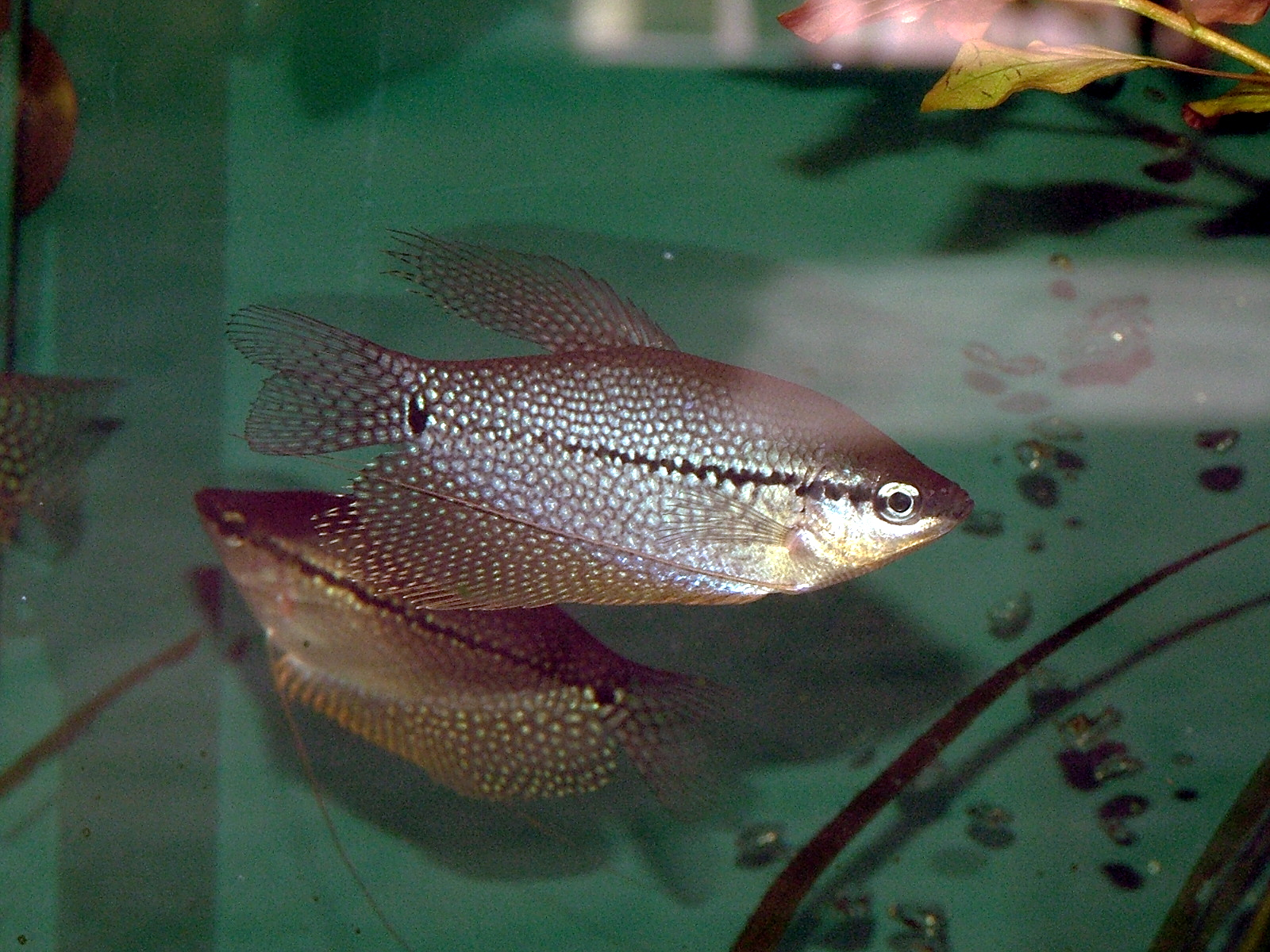 A Pearl gourami (Trichogaster leeri) at the Jerusalem Biblical Zoo.